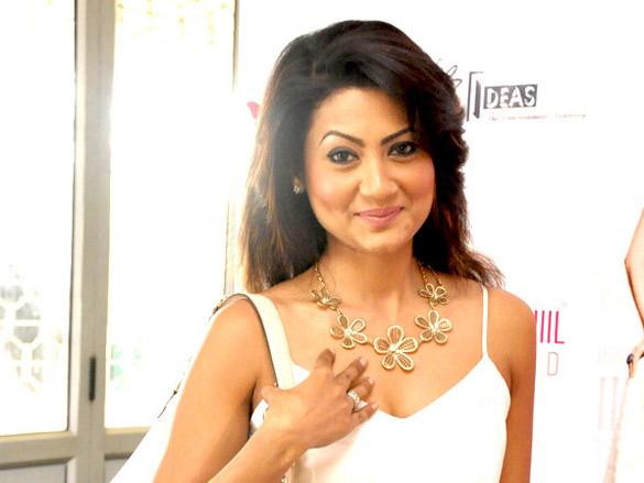 Actress Nigaar Khan at the premier show of Paritosh Painter's I Am The Best.